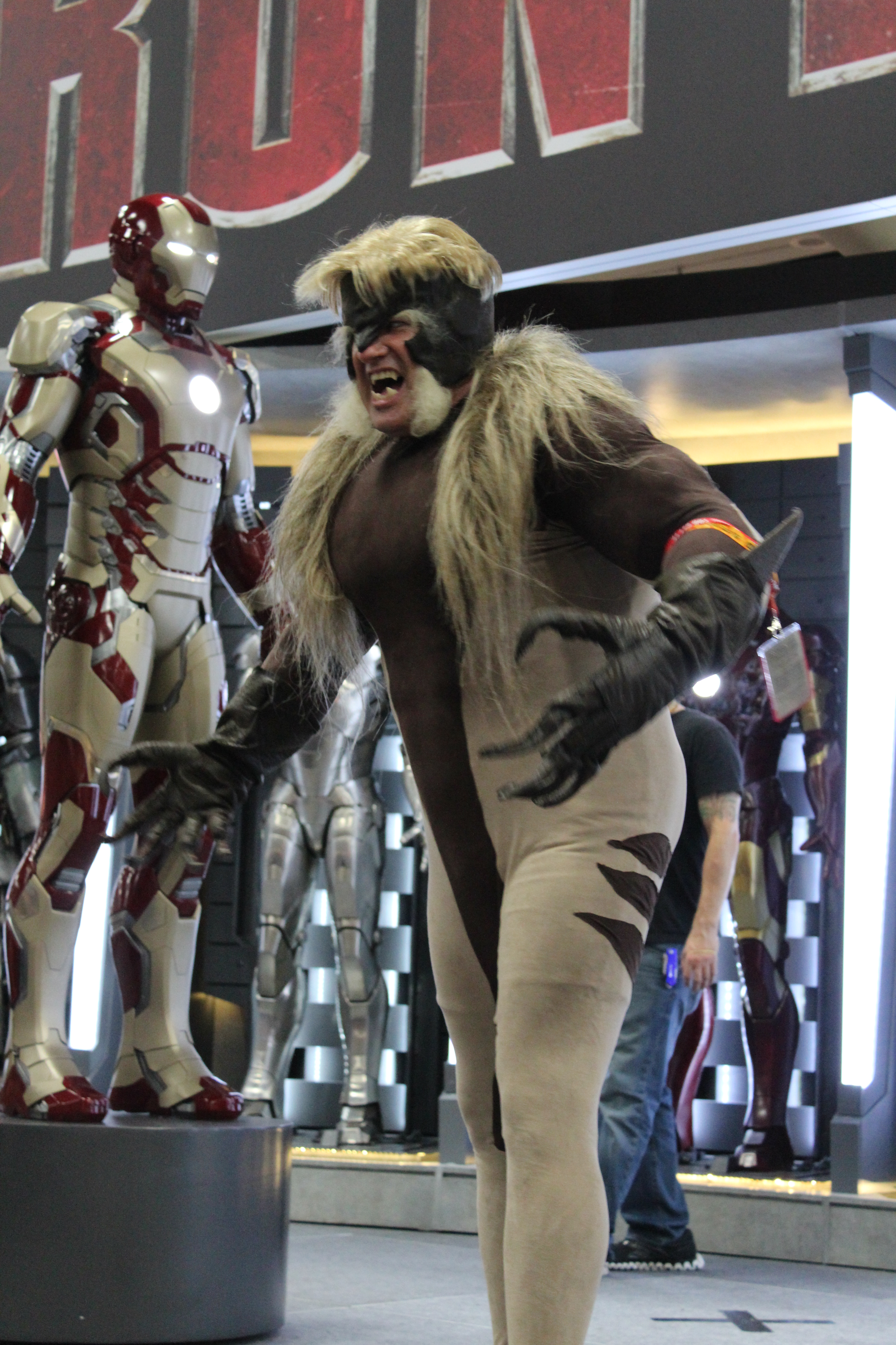 Cosplay at San Diego Comic-Con (SDCC 2012).